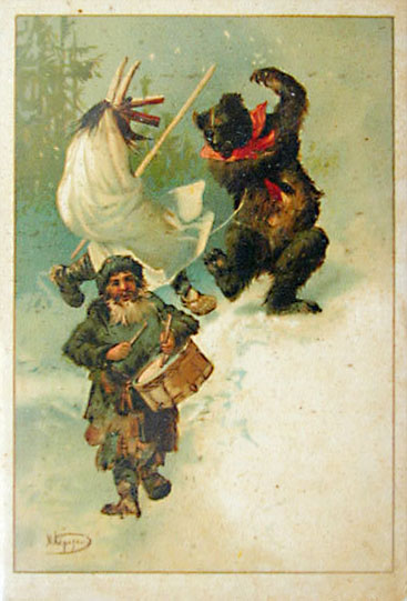 Russian Christmas postcard. 1910s.